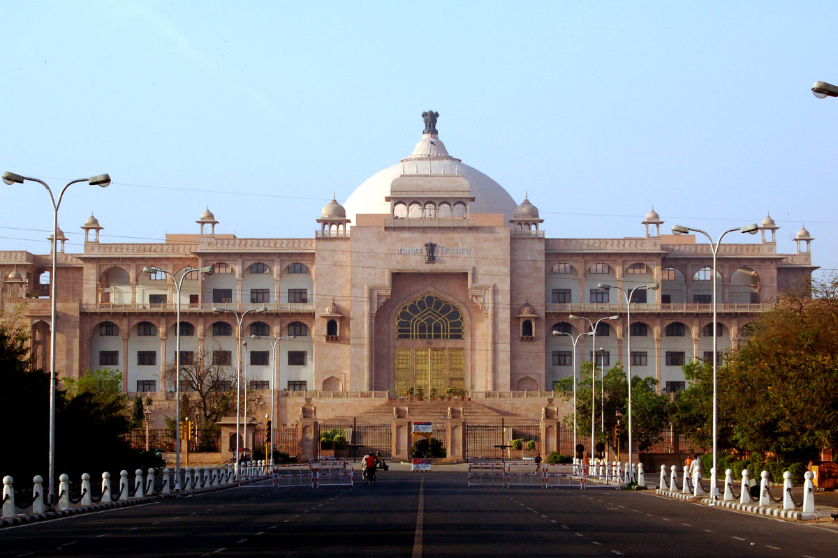 Download from